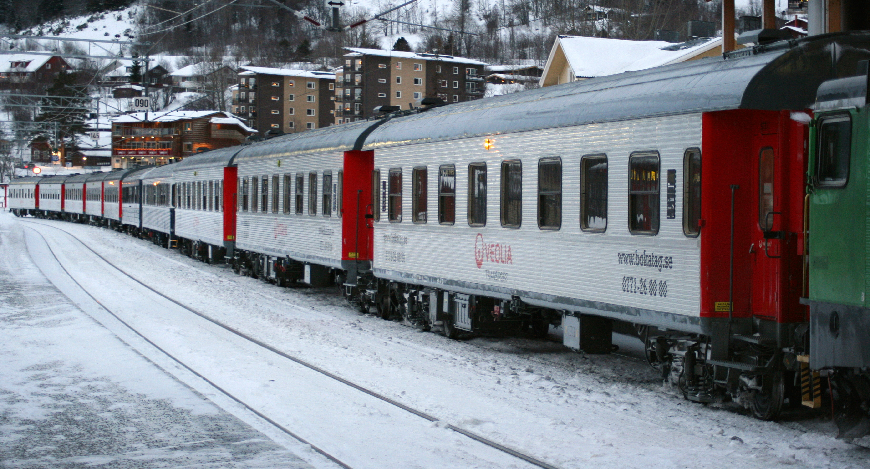 Utmanartåget in Åre